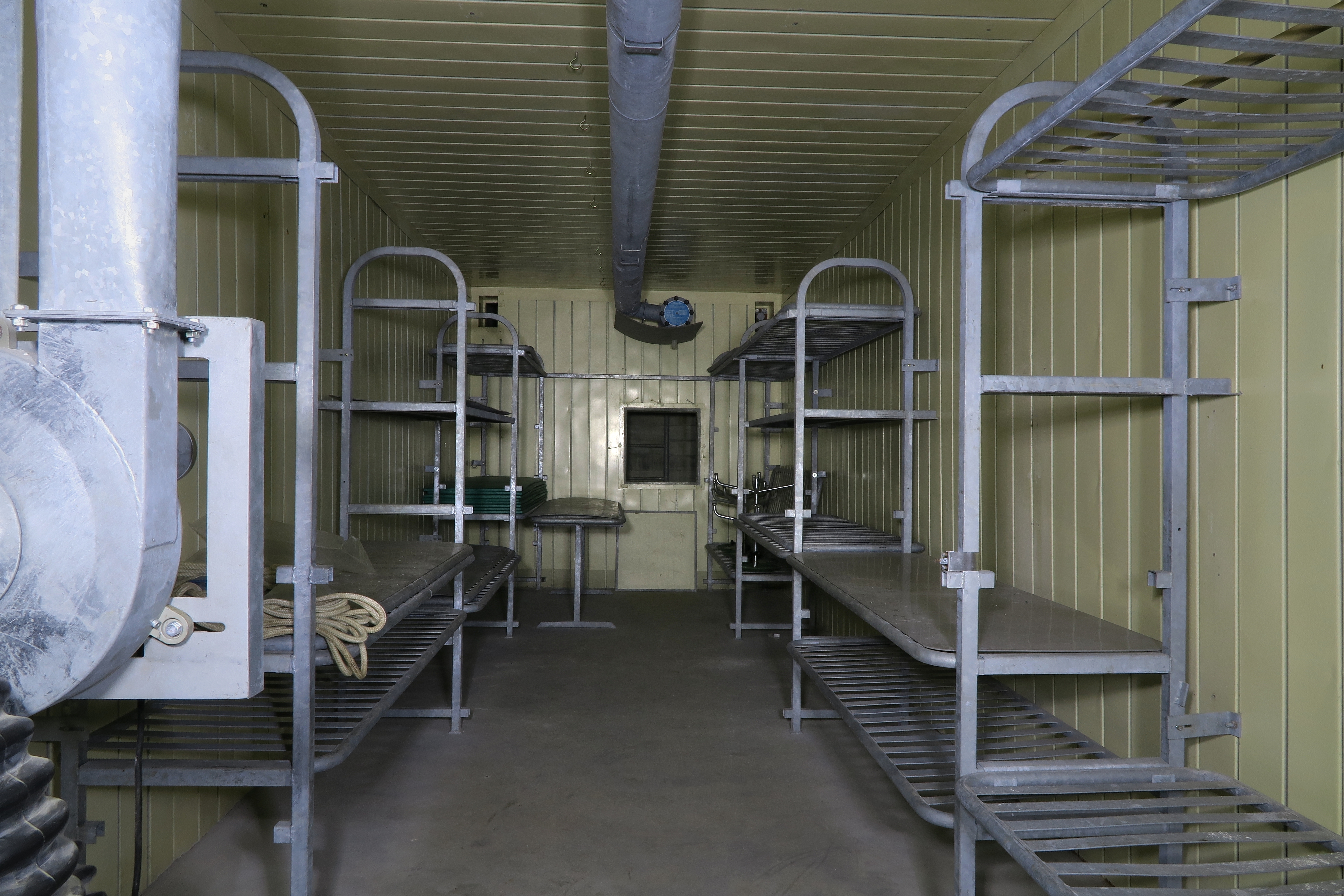 A look into the shelter from the gas lock entrance towards the opposite emergency exit. St. Margrethenberg, Switzerland, Sep 16, 2015. (7/12)